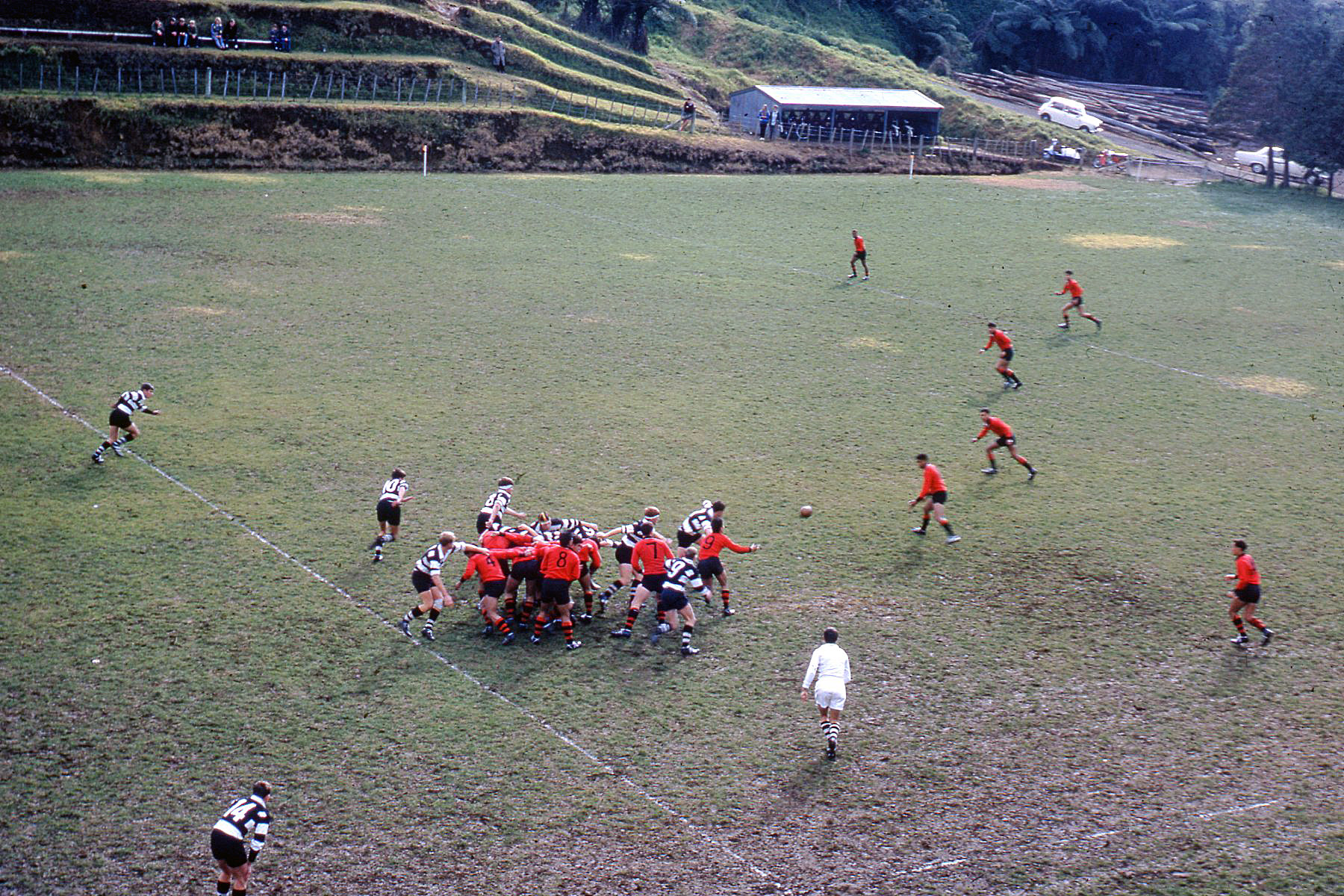 New Plymouth Boys' High School versus Te Aute College